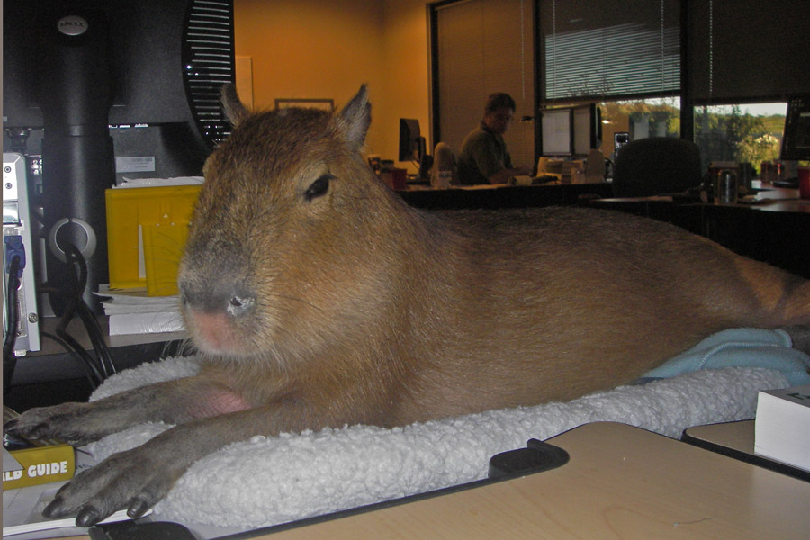 Caplin Rous at five months old and around 30 pounds. In this photo he is sleeping on a desktop at his owner's workplace. (Capybara or Lesser capybara)